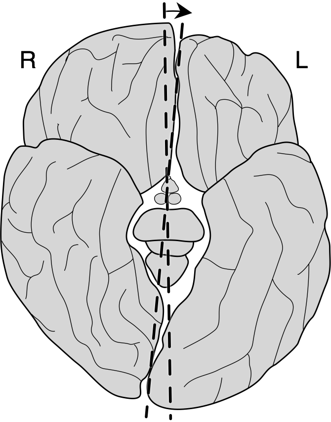 The Yakovlevian torque in the cerebrum (exaggerated). Redrawn from Toga & Thompson. Mapping brain asymmetry. Nat. Rev. Neurosci. 4, 37–48 (2003). DOI 10.1038/nrn1009.